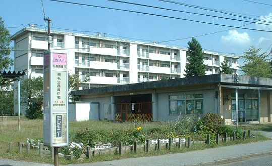 housing for national goverment employee in Inage, Chiba